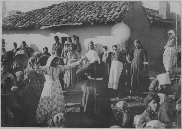 Antante in Lyapusha, today Neapoli, Greece in 1917-1918